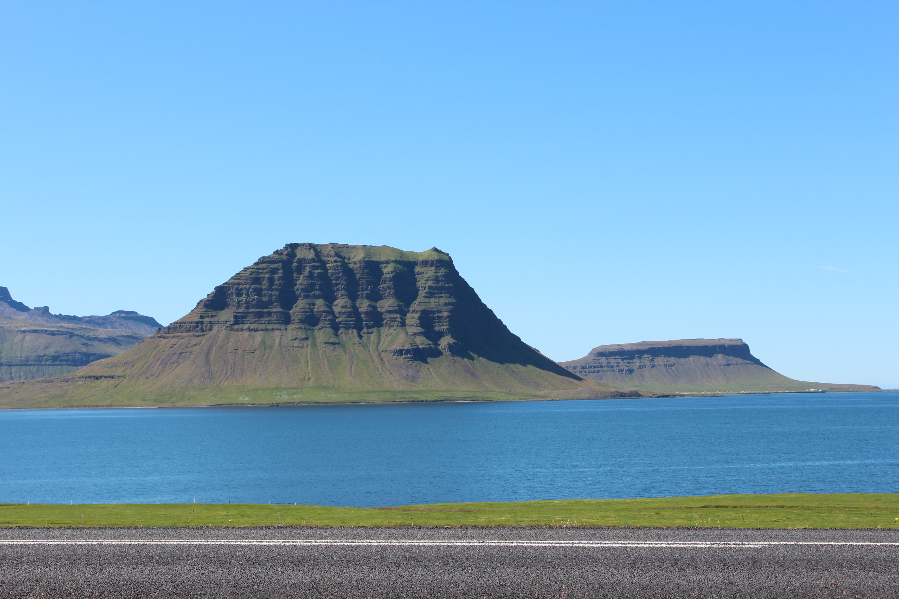 Kirkjufell peninsula near Grundarfjörður in Iceland.